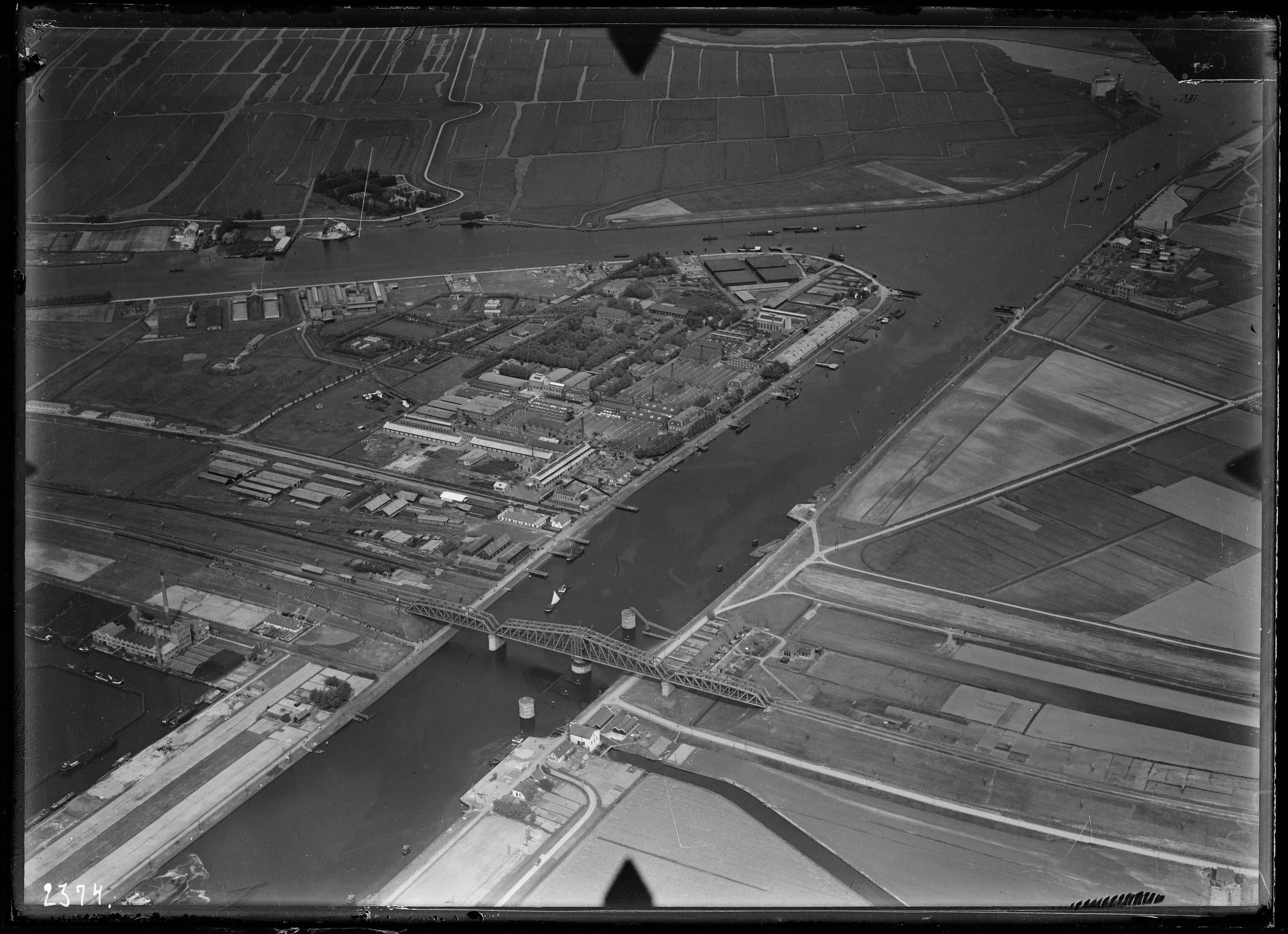 Aerial photograph of Hembrug, The Netherlands